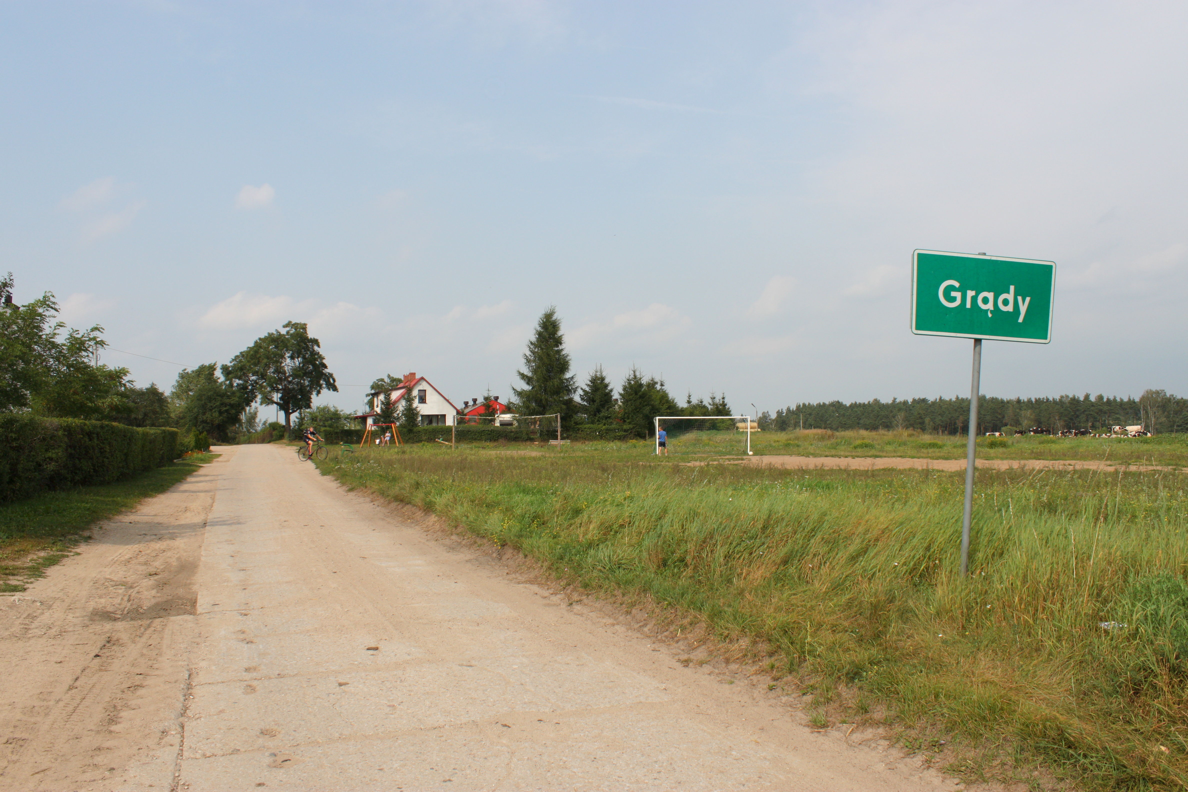 Road in Grądy.